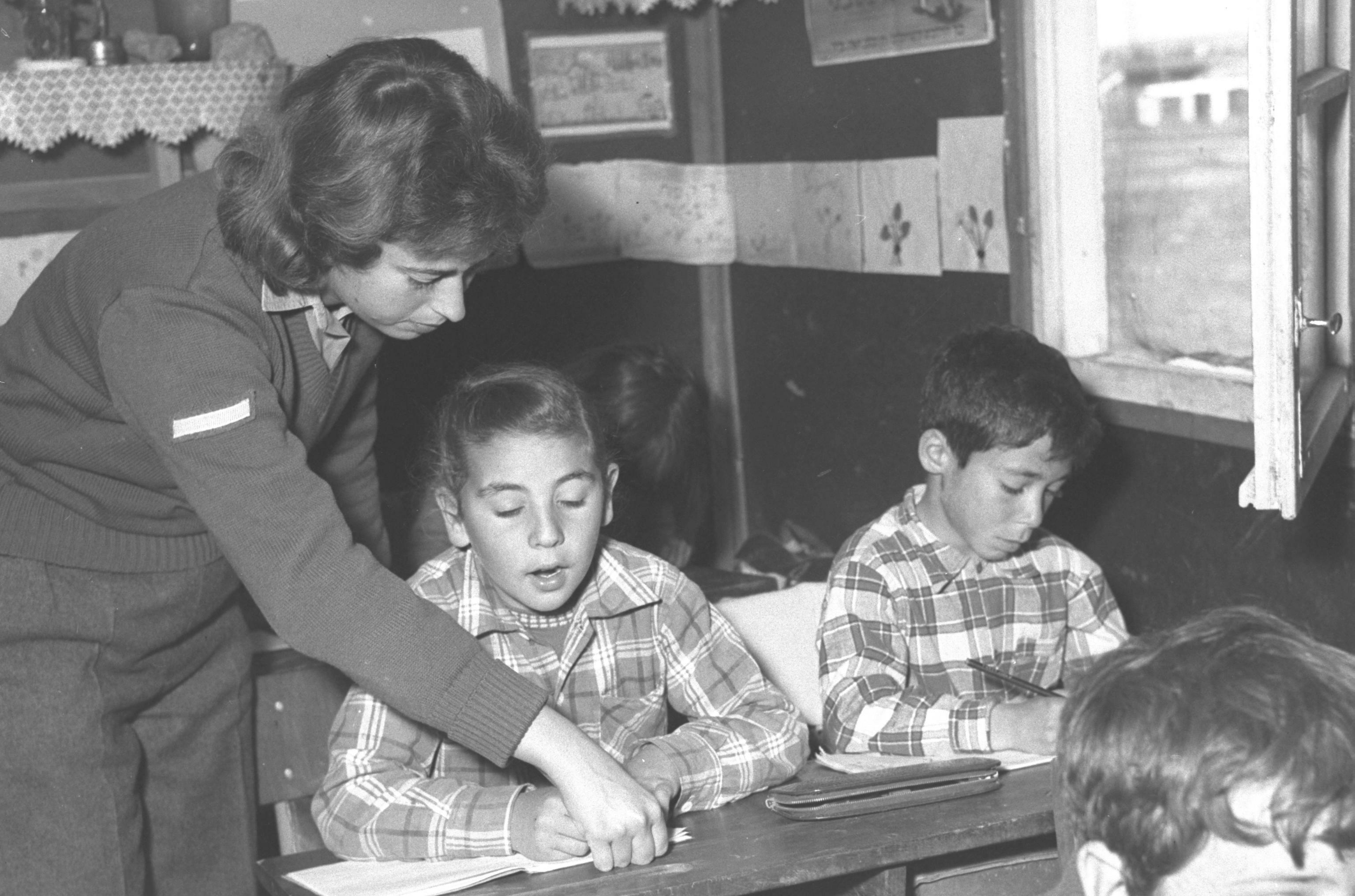 RIVKA TEACHING IMMIGRANT CHILDREN AT MOSHAV MENUHA